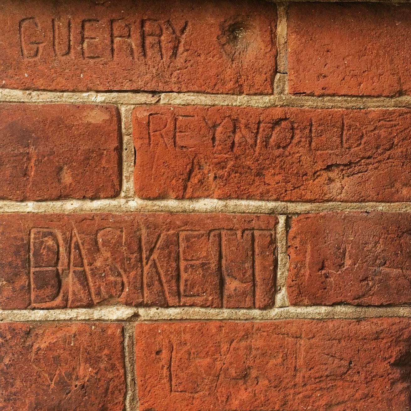 Student names scratched into bricks on the Range.